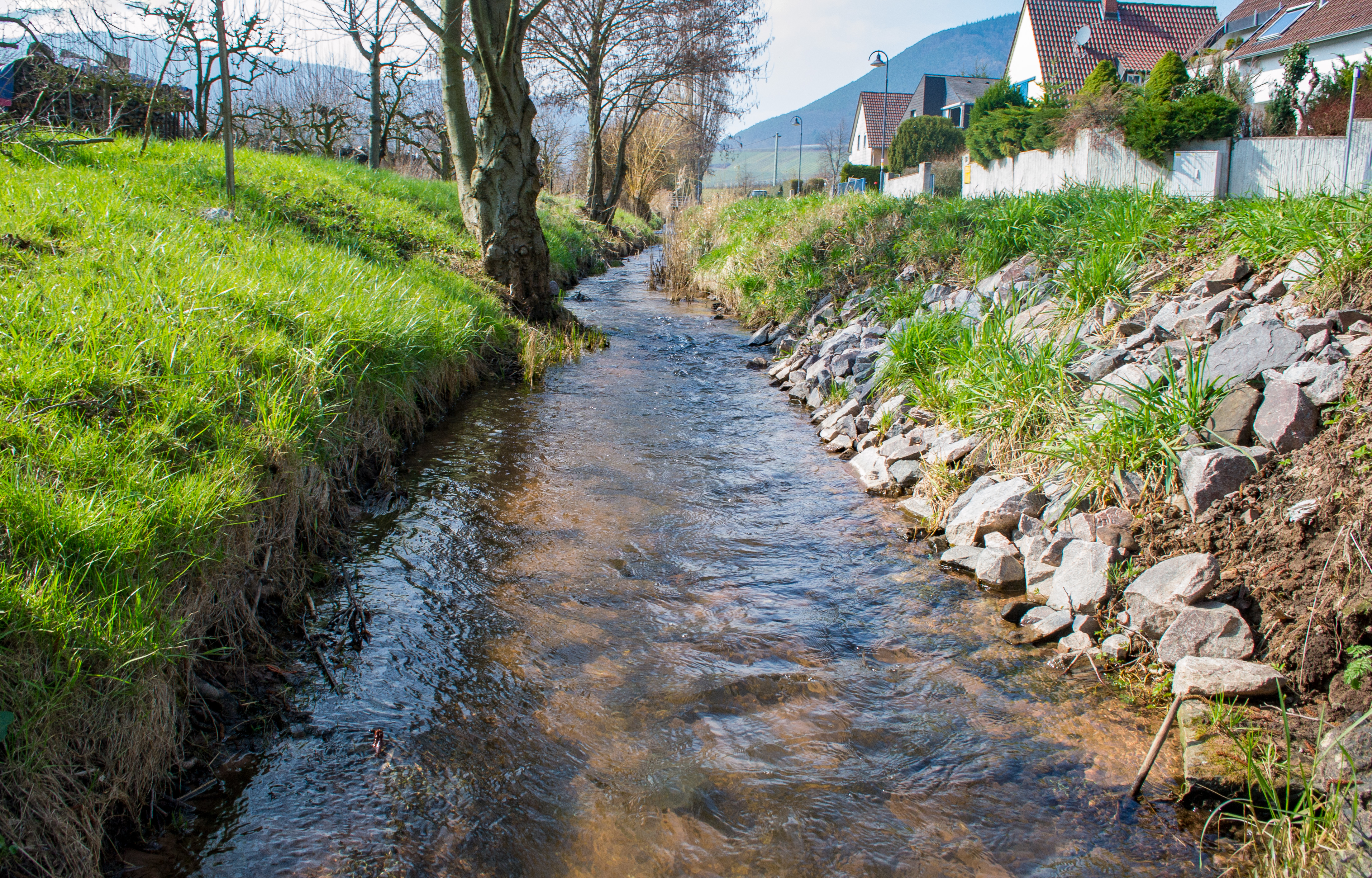 The Modenbach (a small river) in Hainfeld (Palatinate).